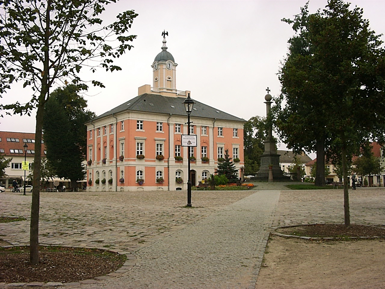 Town hall of Templin, Brandenburg, Germany.